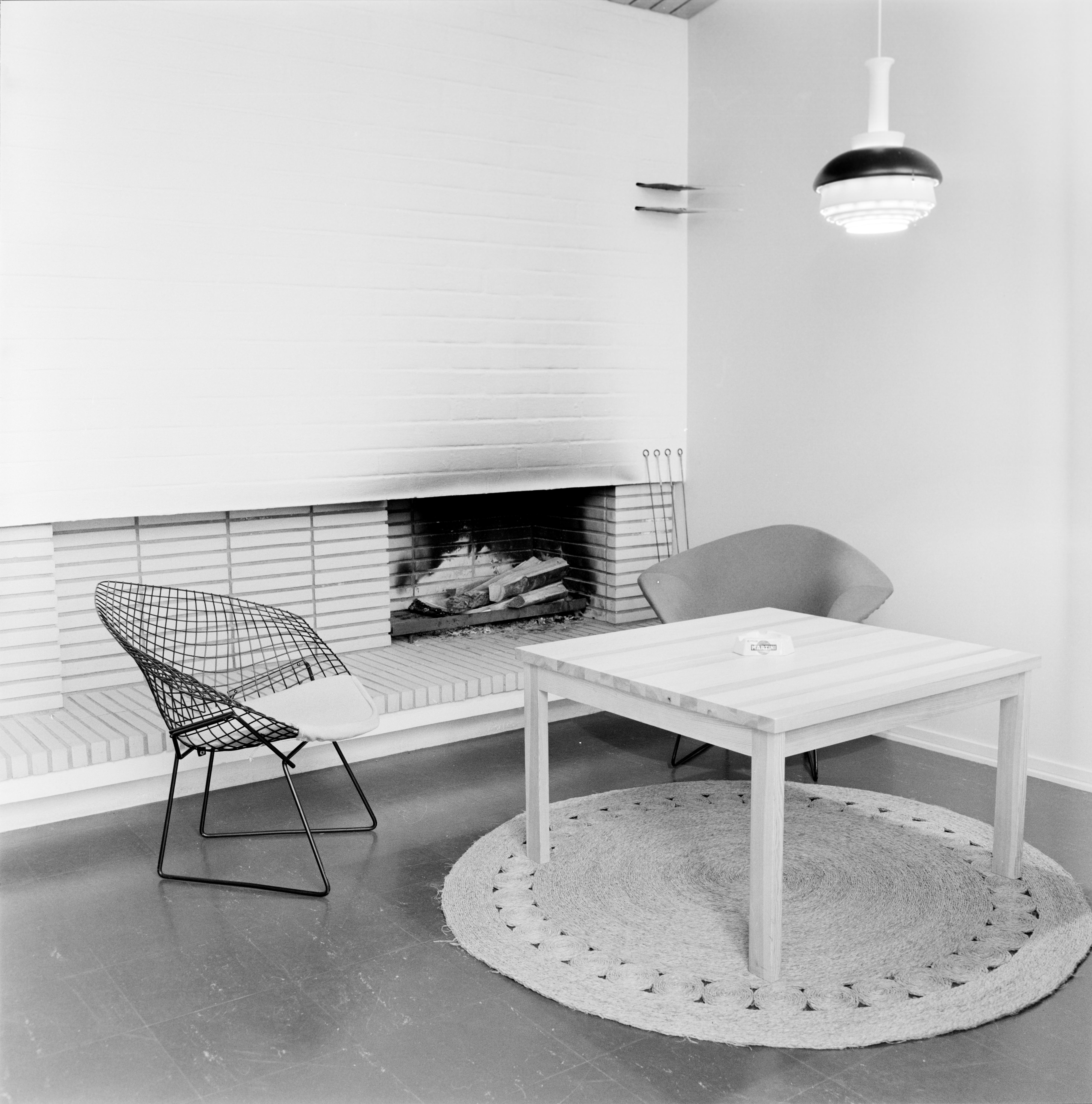 A room with a fireplace in Voima cooperative's new hotel. / Takkahuone Osuusliike Voiman uudessa hotellissa. photographer unknown / kuvaaja tuntematon 1961 Tampere, Pirkanmaa, Finland The Finnish Museum of Photography / Suomen valokuvataiteen museo